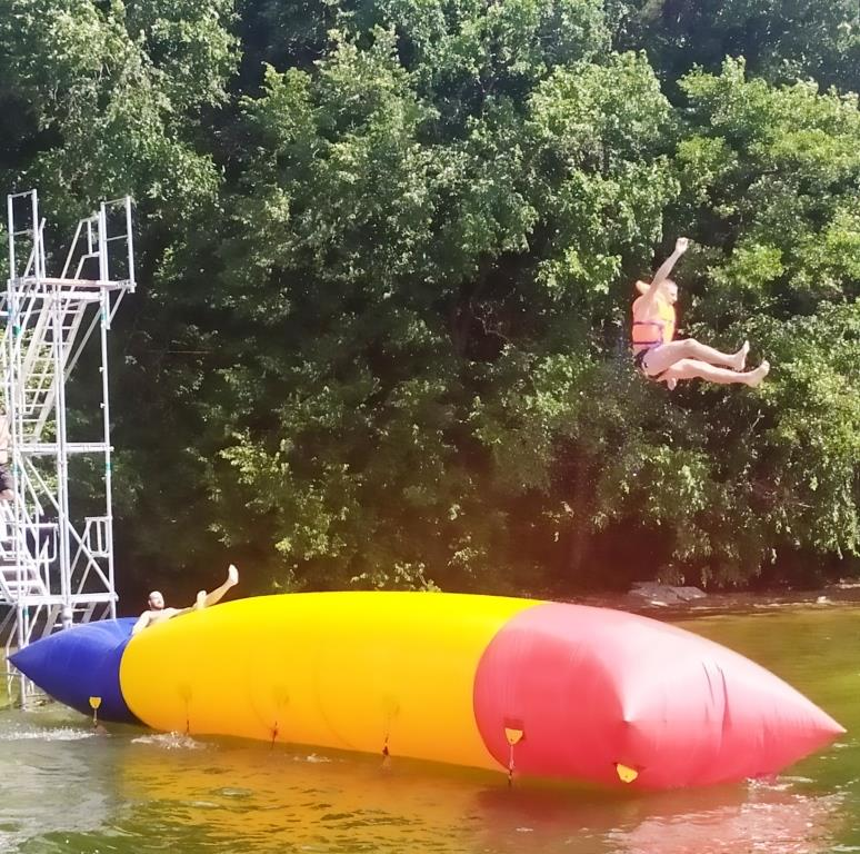 Blob jump Kretowiny 4.07.2020